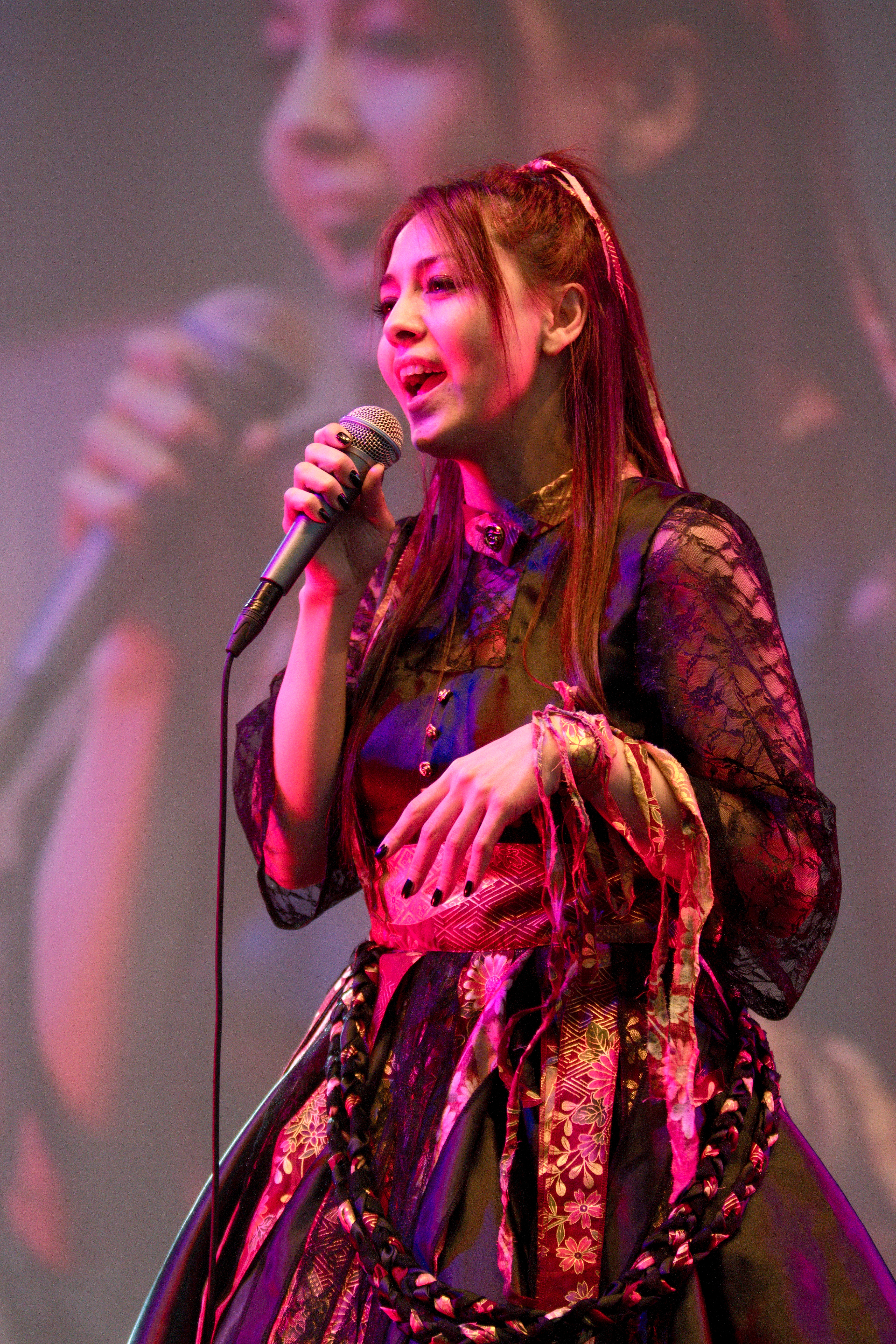 Head Phones President acoustic live at Japan Expo Sud 2011 (Marseille, France).